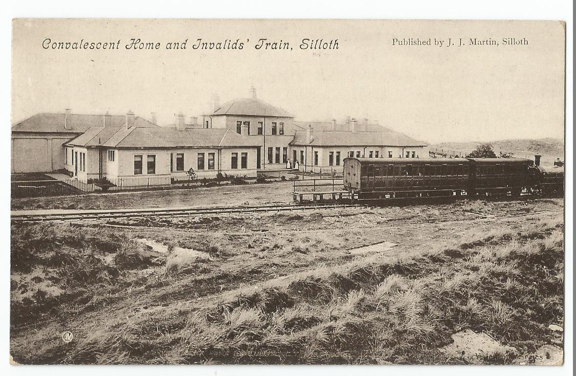 Cumberland and Westmorland Convalescent Home railway station with train.